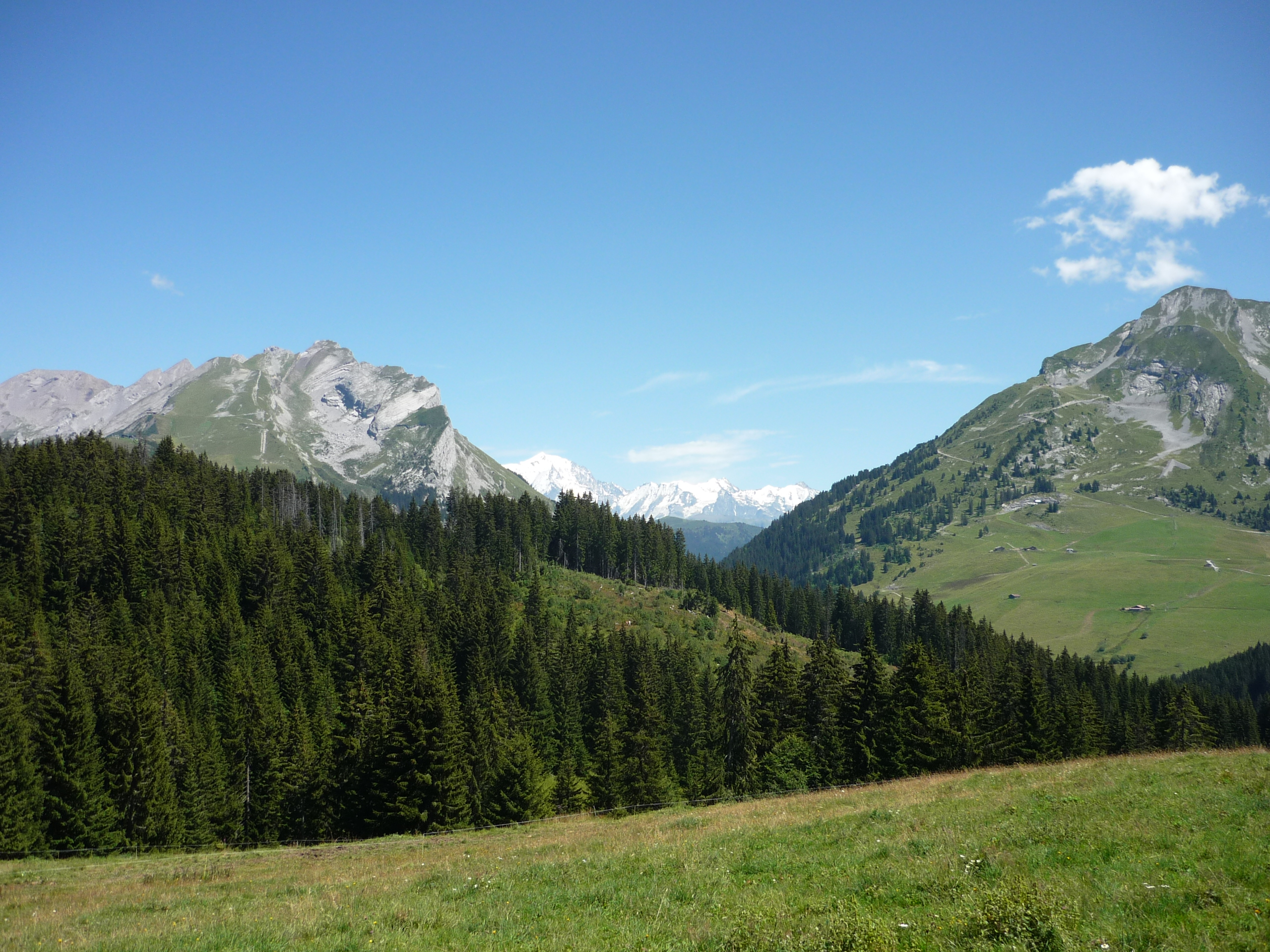 Aravis mountain pass from plateau de Beauregard with Mont Blanc massif in the middle, La Clusaz, Haute-Savoie, France